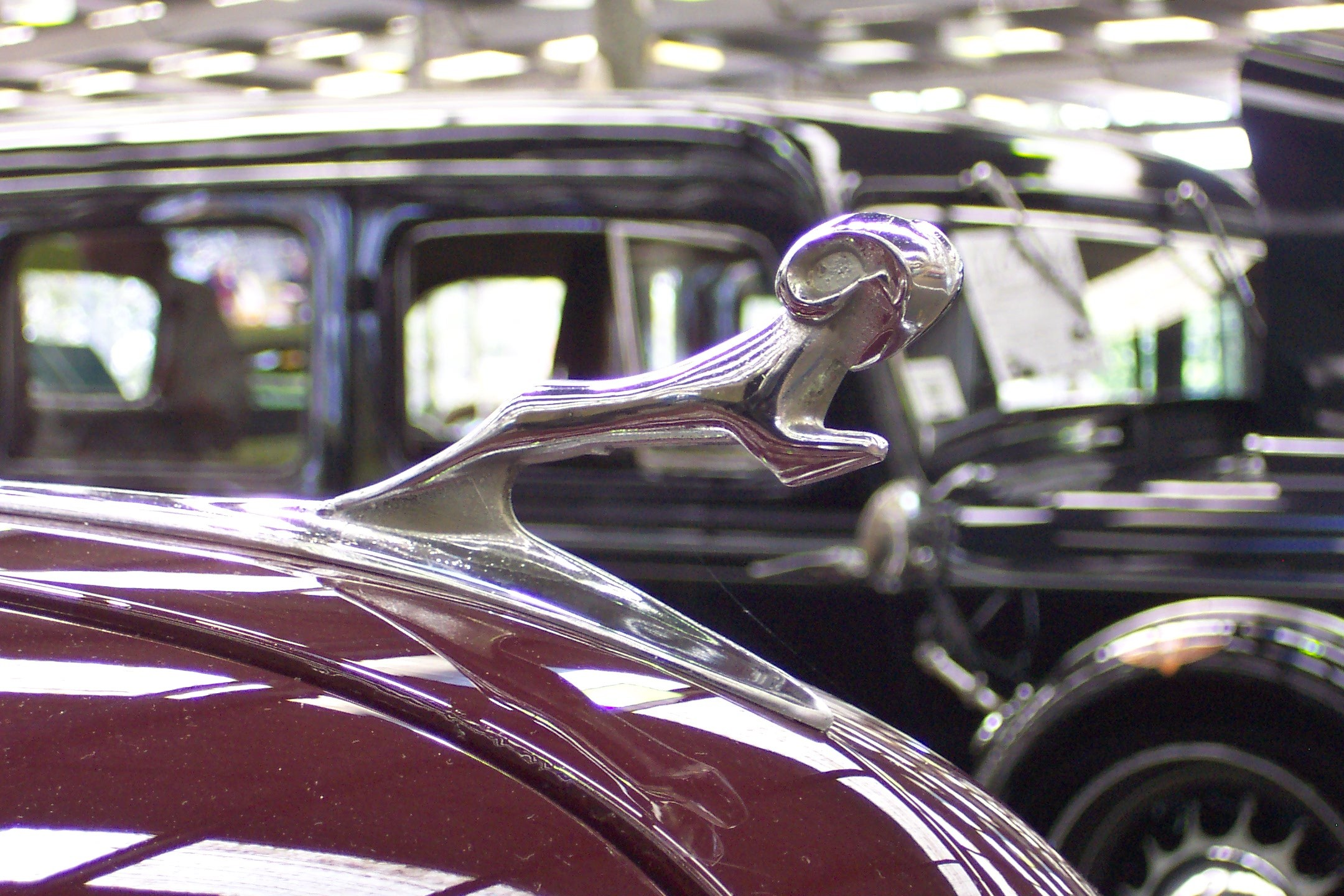 Dodge ram's head hood ornament. Taken at the 2003 New South Wales All Chrysler Day, held at Fairfield Showground, Prairiewood, Sydney.